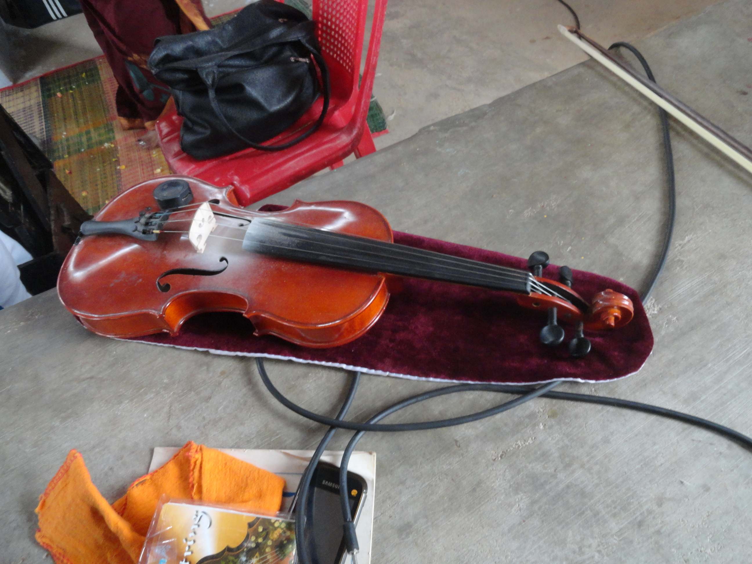 పిడేలు. మొగరాల హరికథలో తీసిన చిత్రము